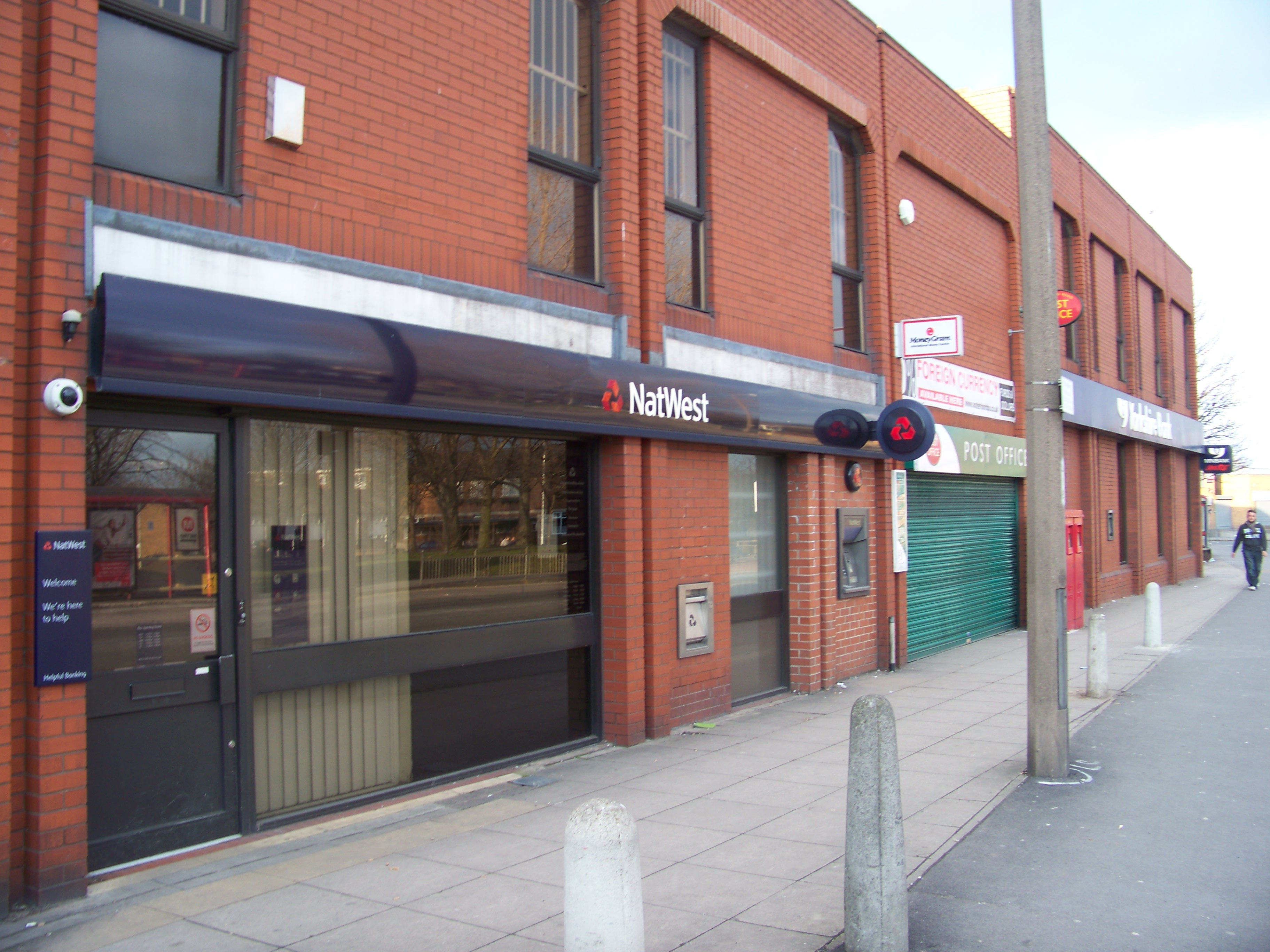 The National Westminster Bank (Natwest) at the Penny Hill Centre, Church Street, Hunslet, Leeds. Taken on the afternoon of Saturday the 20th of February 2010.